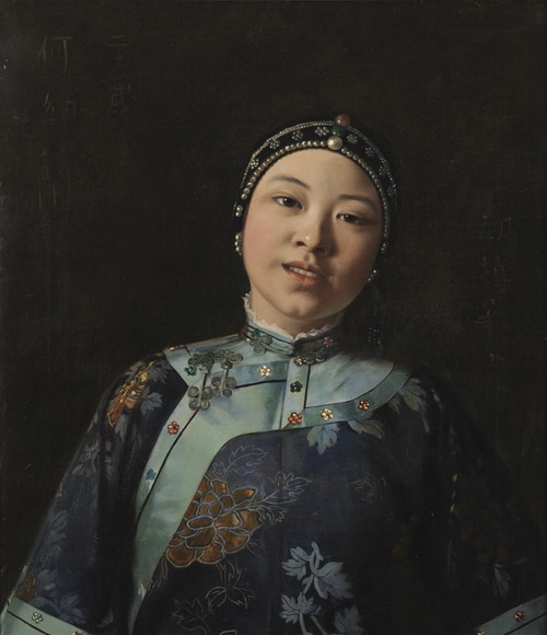 Hubert Vos's painting of the daughter of a officer in Fujian navy